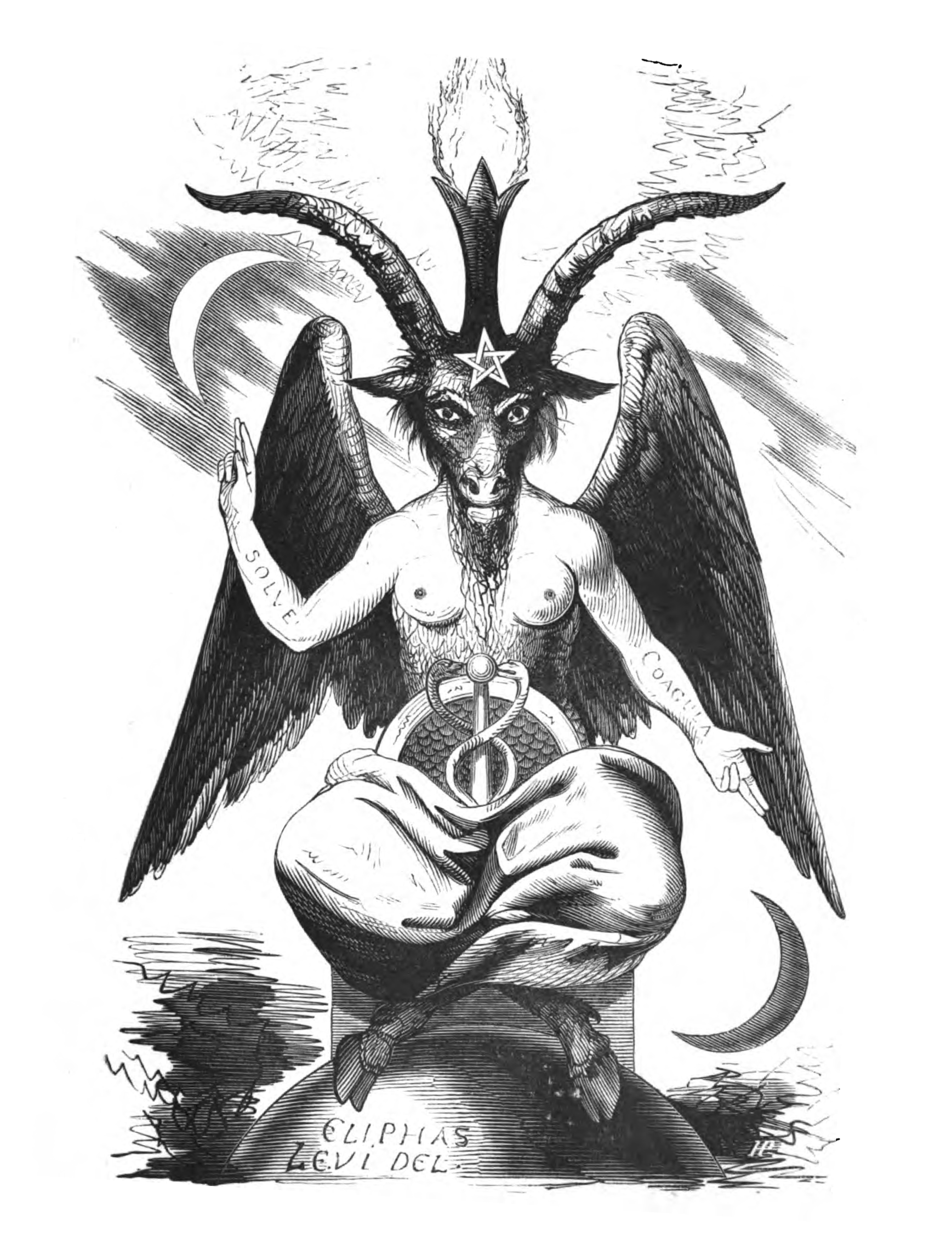 Baphomet, also known as the Sabbatic Goat, Dogme et Rituel de la Haute Magie